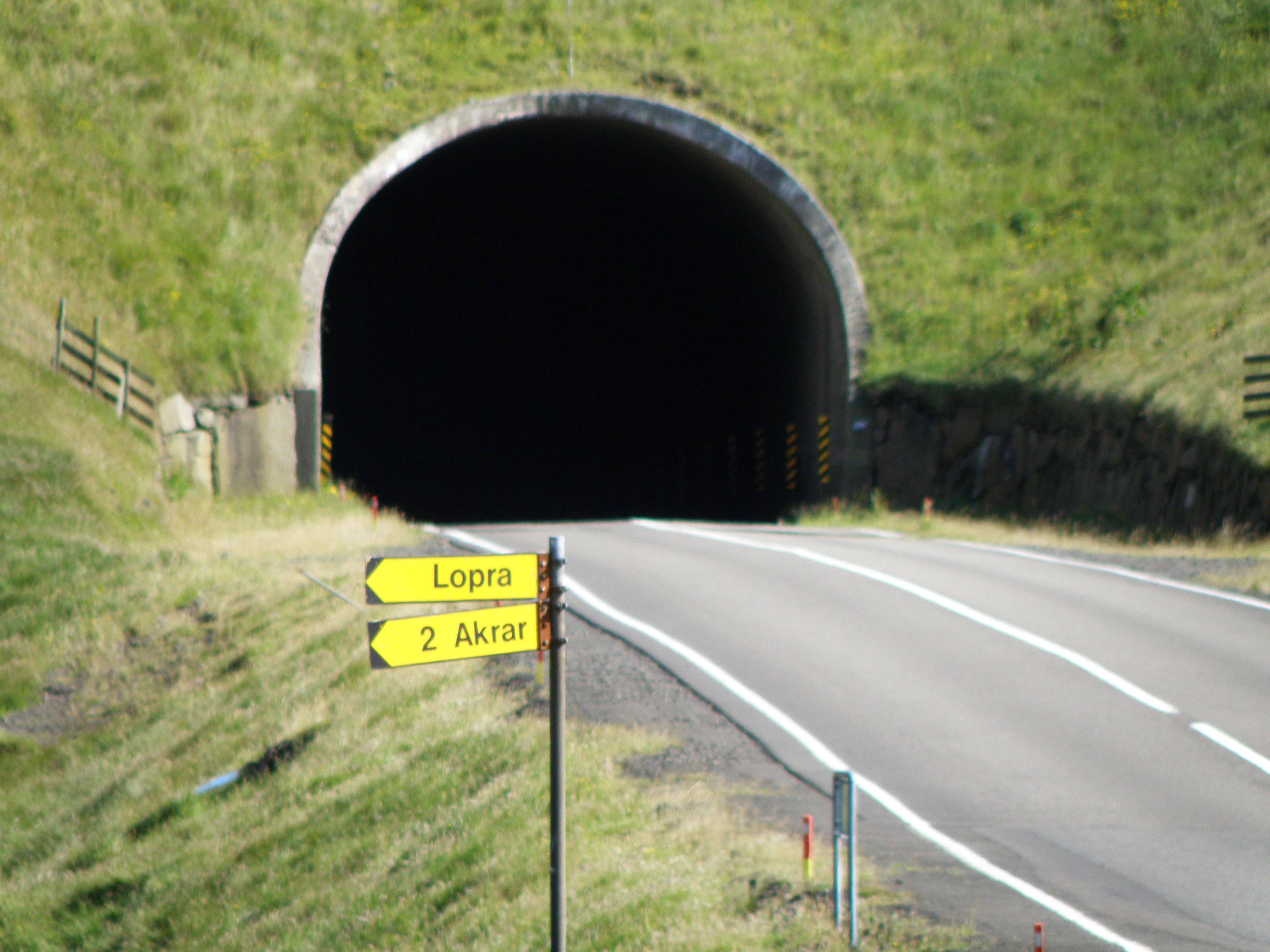 The tunnel between Lopra and Sumba is called Sumbiartunnilin. It opened officially in 1997. It is 3,240 meter long (10,630 ft). The tunnel has two lanes.